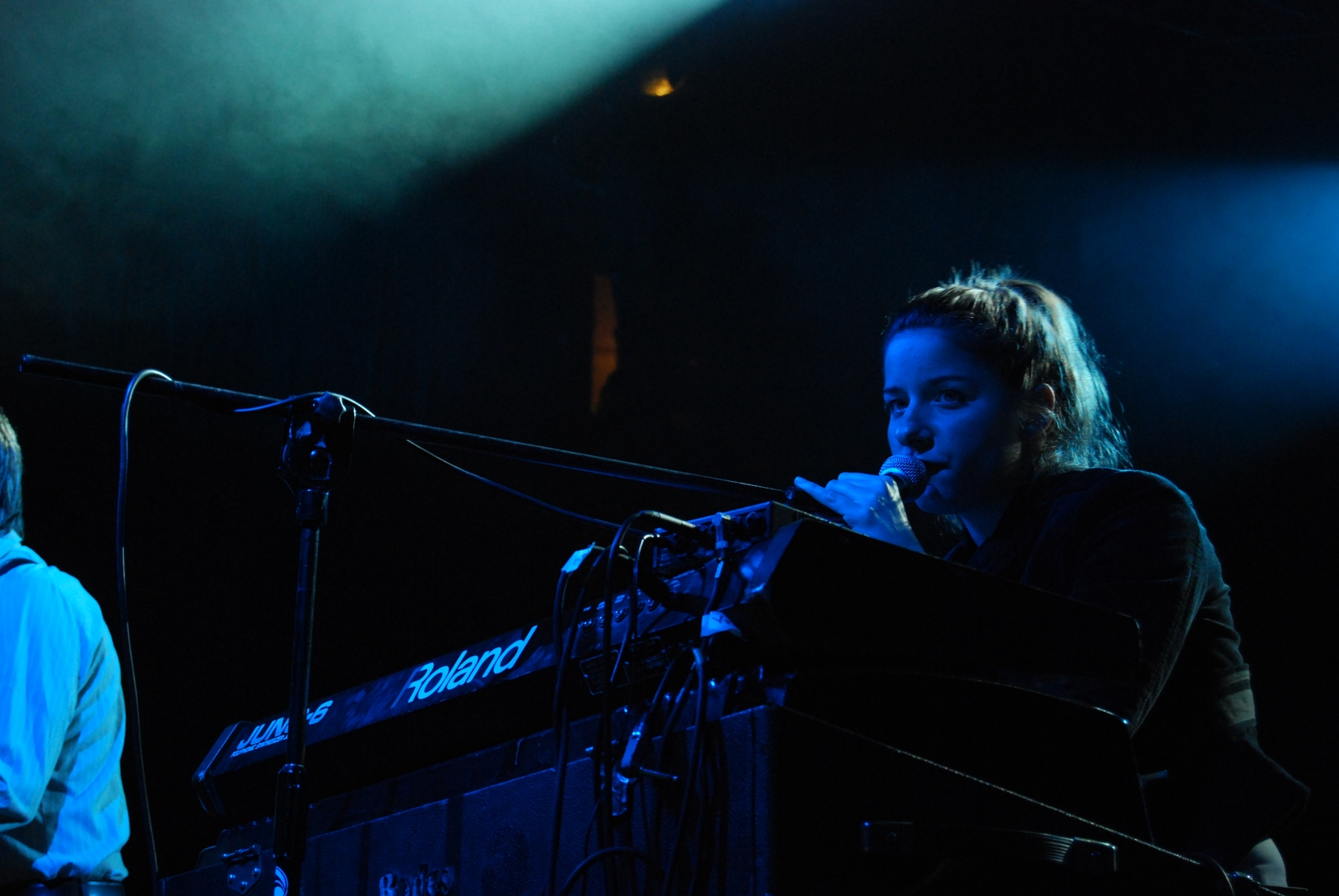 Pustki at Juwenalia in Kraków in 2009.